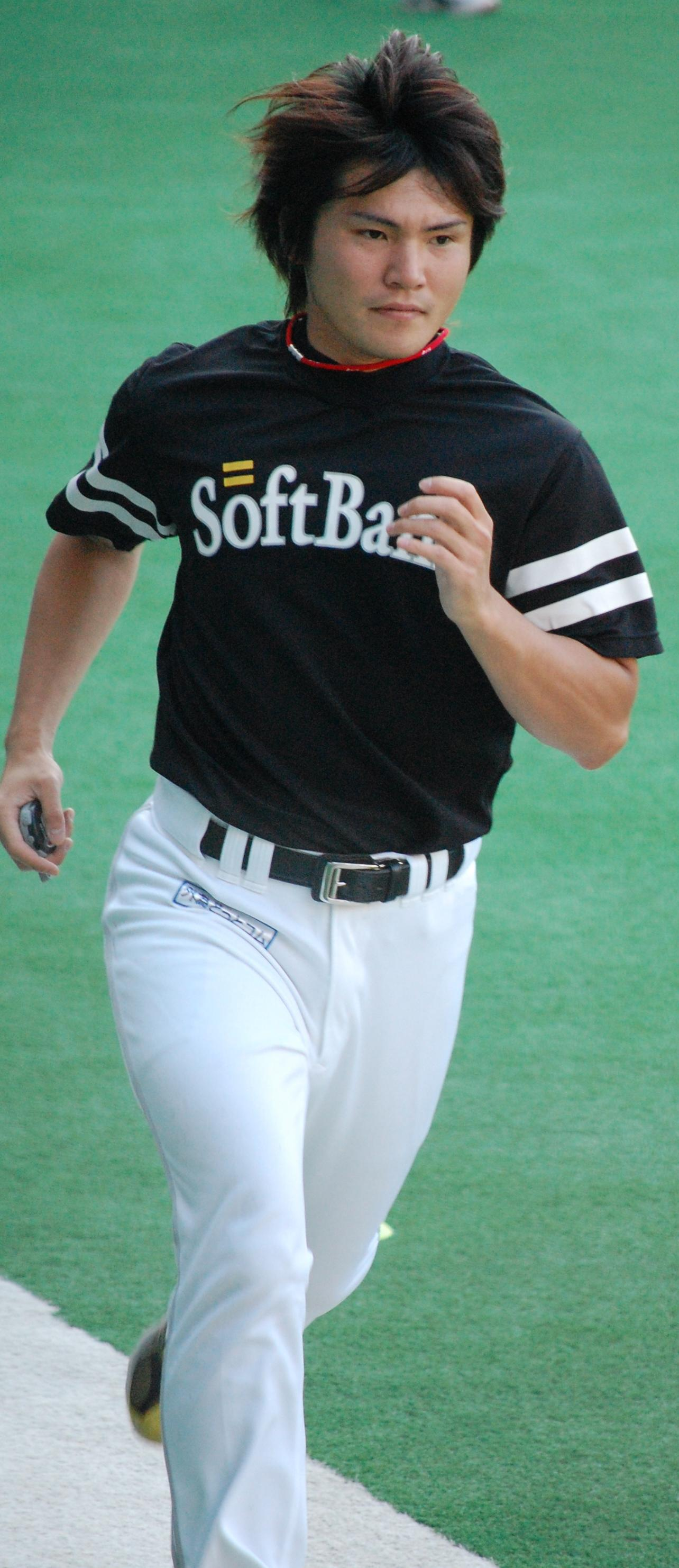 Toshiya Sugiuchi, pitcher of the Fukuoka SoftBank Hawks, at Chiba Marine Stadium.